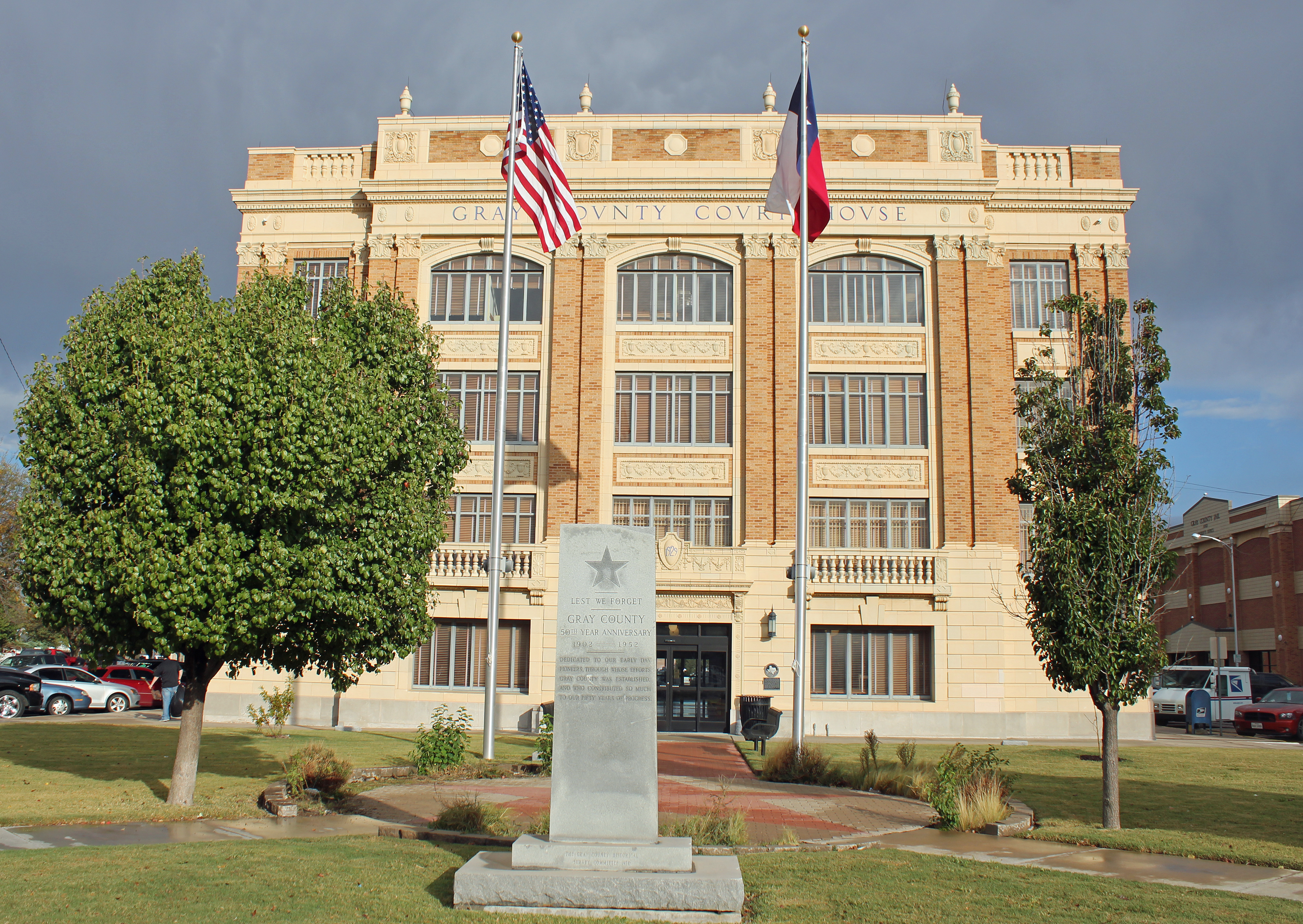 The Gray County Courthouse, located at 205 North Russell Street in Pampa, Texas. The inscription on the building reads, "Gray Covnty Covrt Hovse." The property is listed on the National Register of Historic Places.